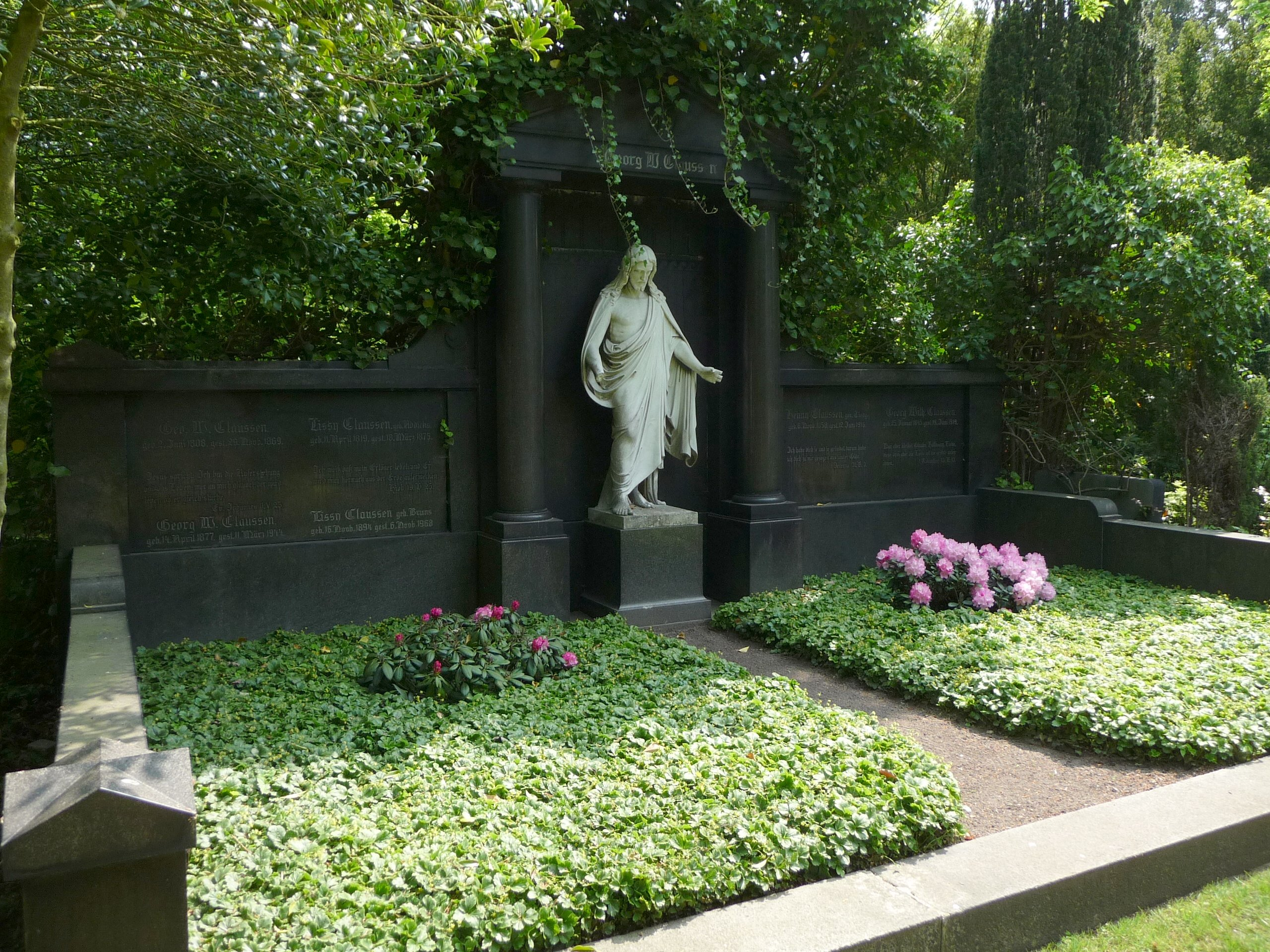 Cemetery Lehe I in Bremerhaven; tomb of Georg Wilhelm Claussen